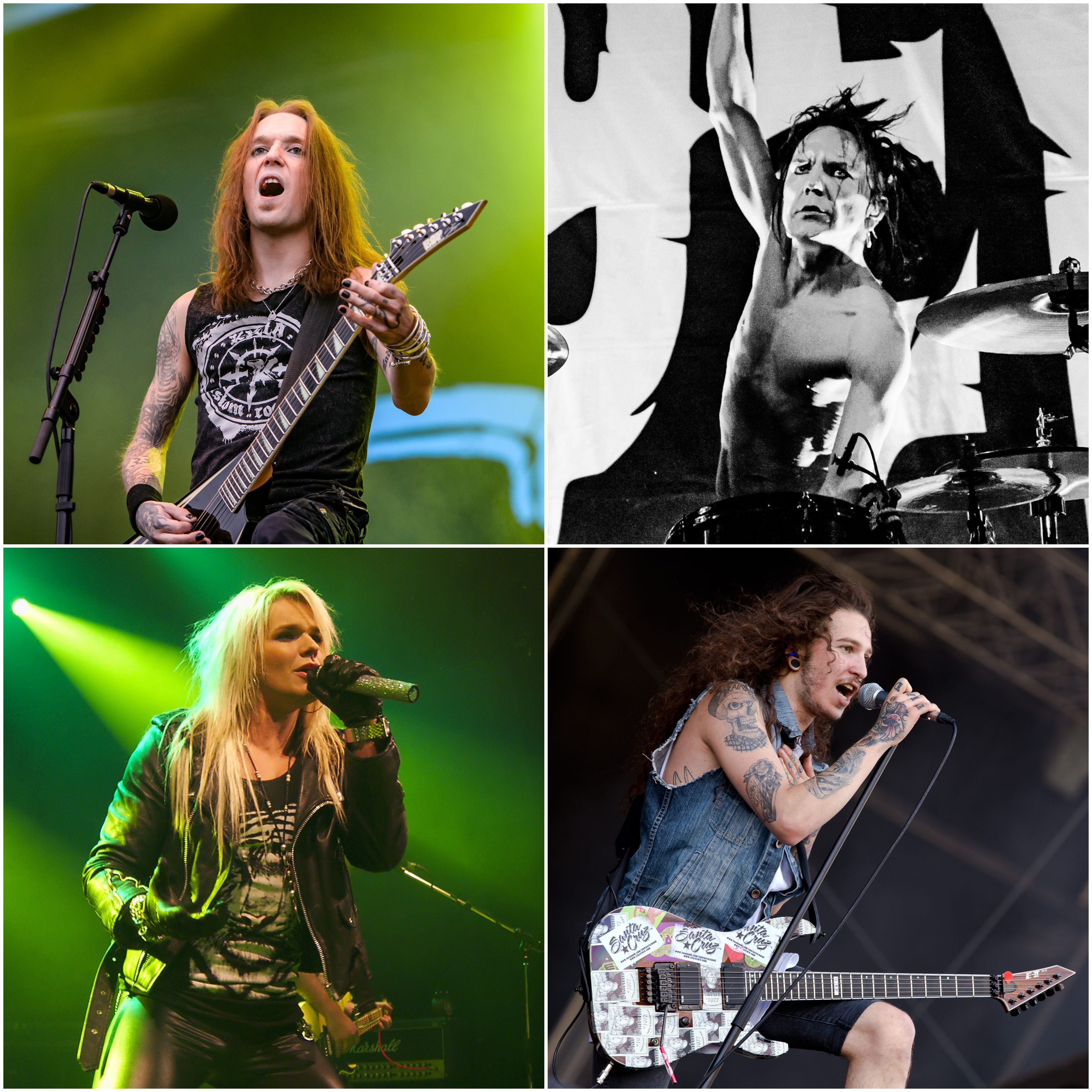 Clockwise, from top left: Alexi Laiho, Jussi 69, Olli Herman and Samy Elbanna of The Local Band. A crop/montage derived from images with Creative Commons licenses on Wikimedia Commons.